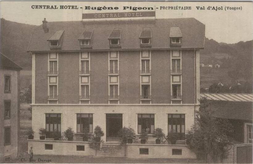 Central Hotel in the town of Le Val-d'Ajol, France. Postcard by Léo Durupt